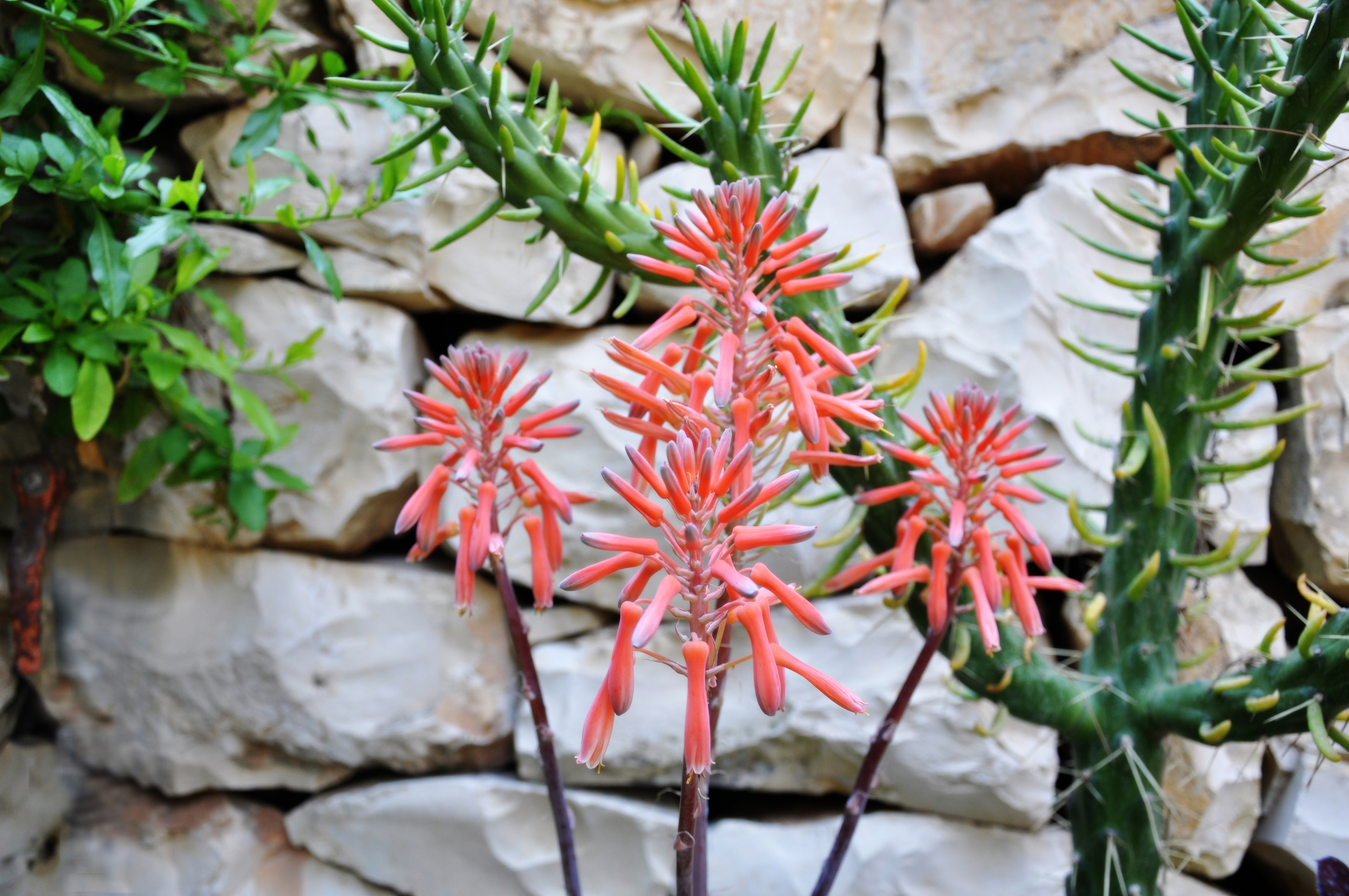 Taken in Israel, Jerusalem